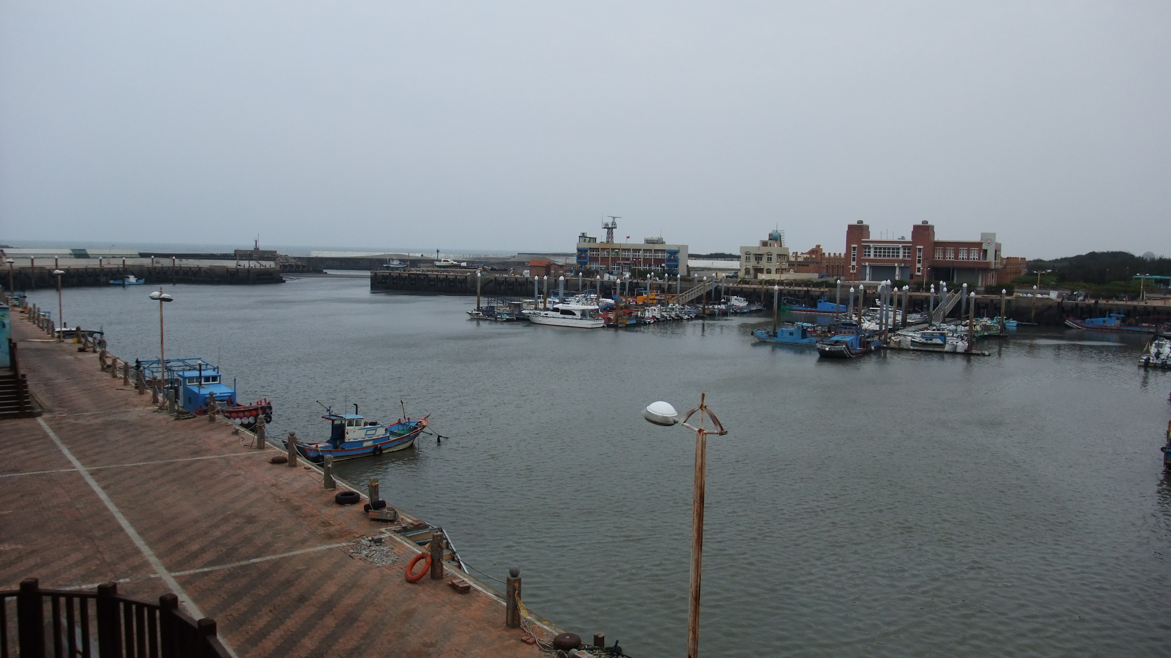 Waipu Fishing Port中文（台灣）: 外埔漁港的港內